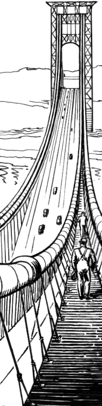 line art drawing of catwalk.